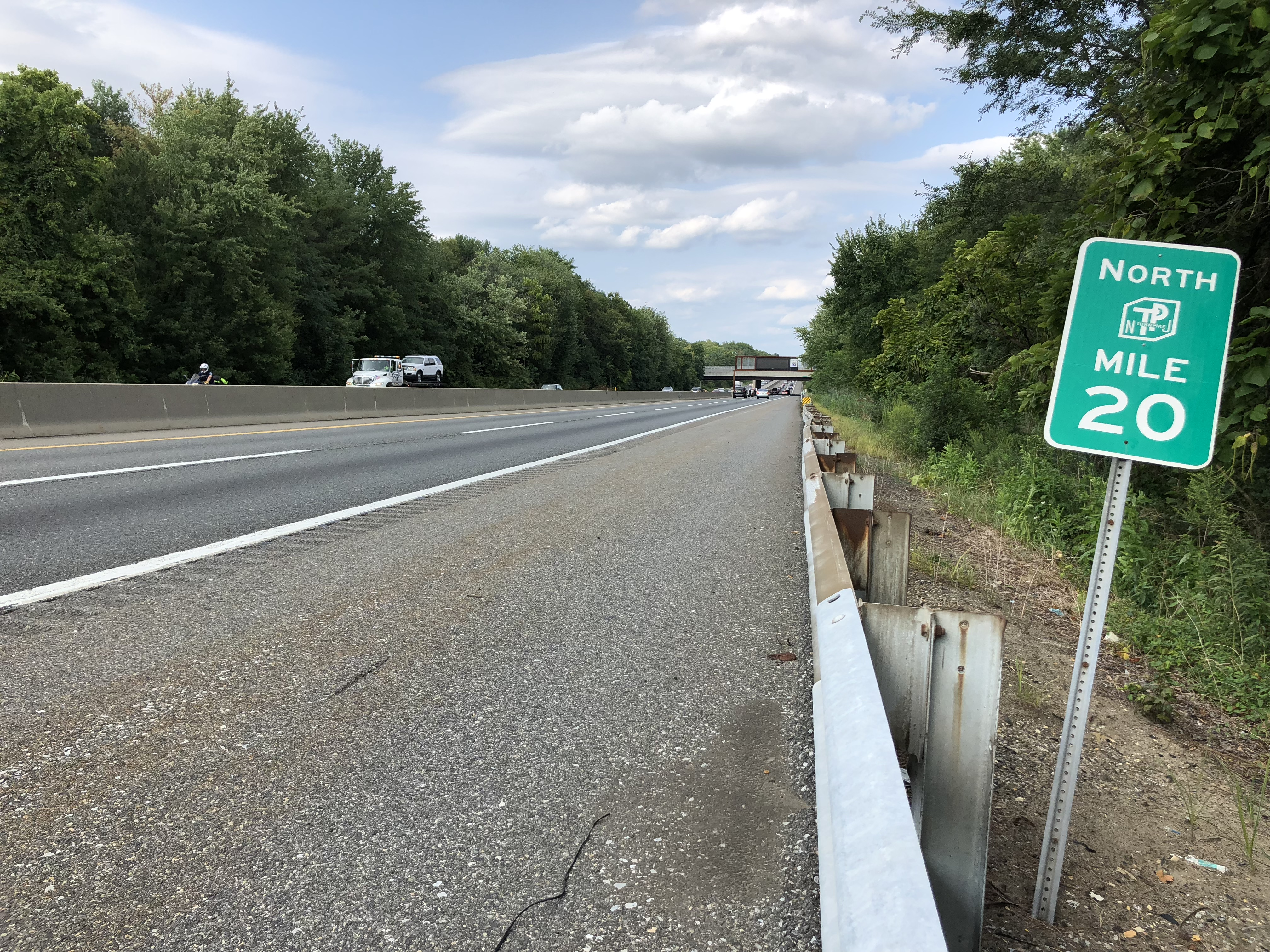 View north along New Jersey State Route 700 (New Jersey Turnpike) between Exit 2 and Exit 3 in West Deptford Township, Gloucester County, New Jersey